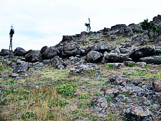 Dragoyna_Parvomaj_fortress_BG_01